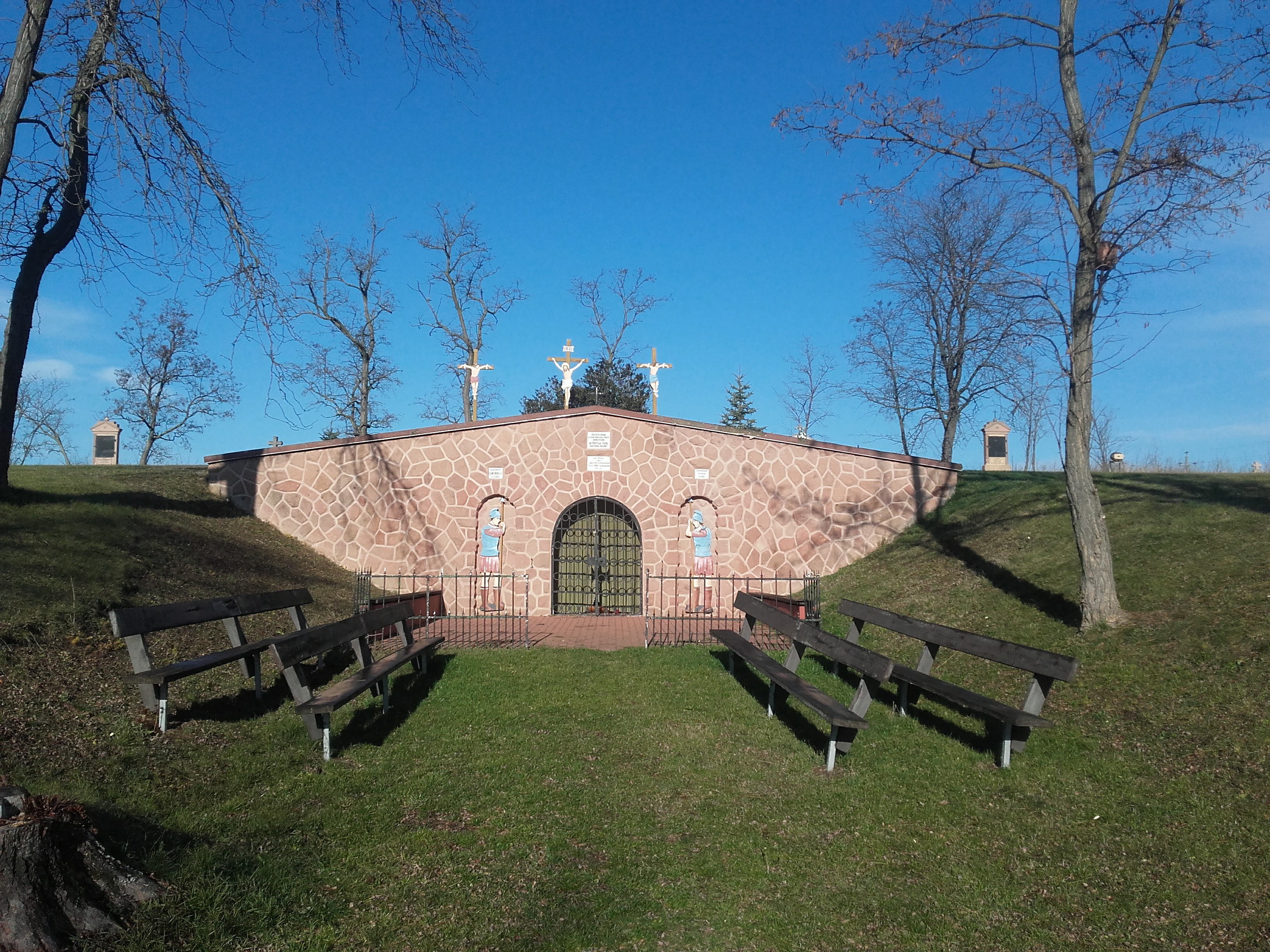 The chapel of the Calvary in Szihalom, Hungary